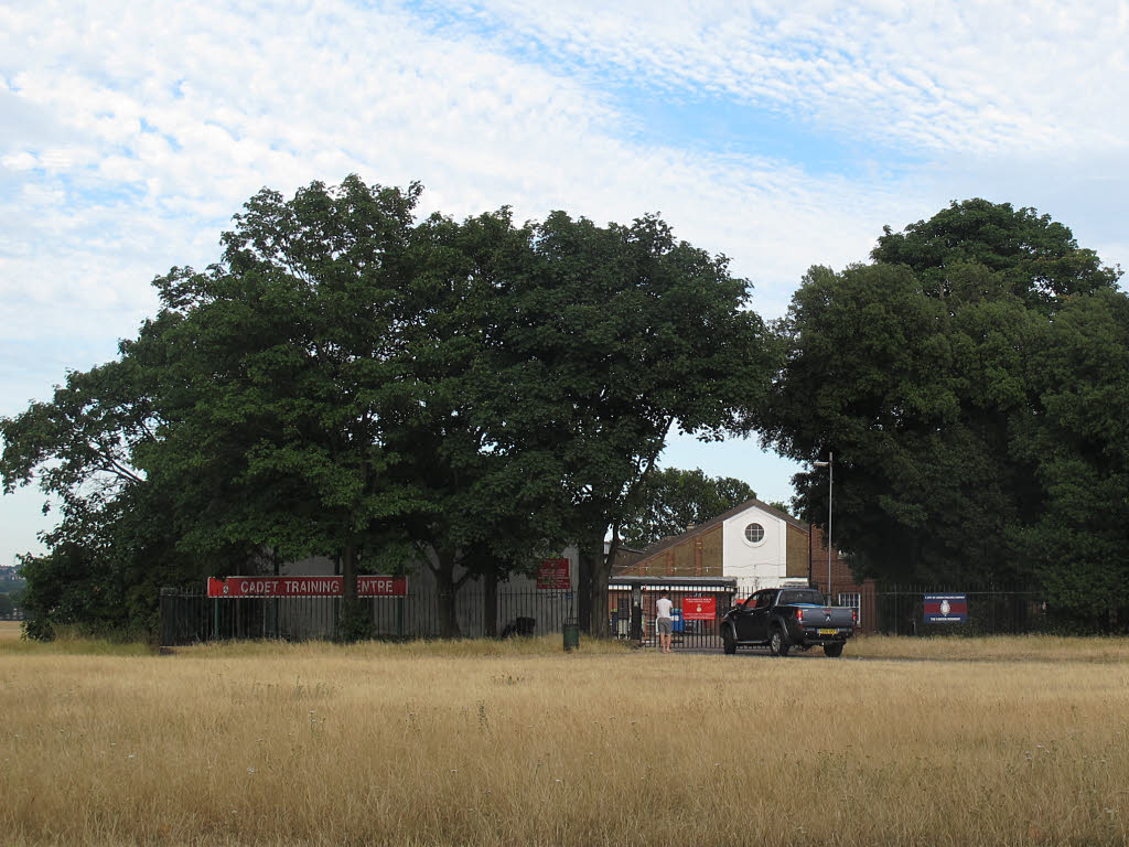 Blackheath Territorial Army Cadet Centre